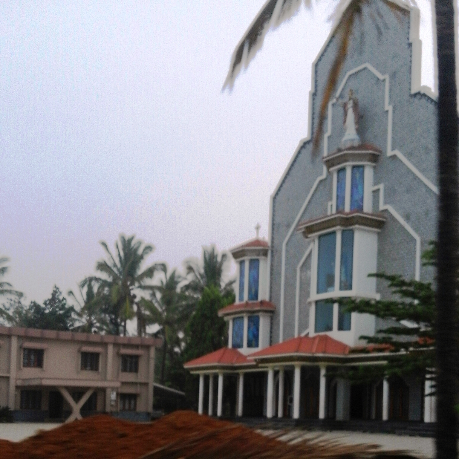 Pulpally area, Wayanad district, Kerala, India.